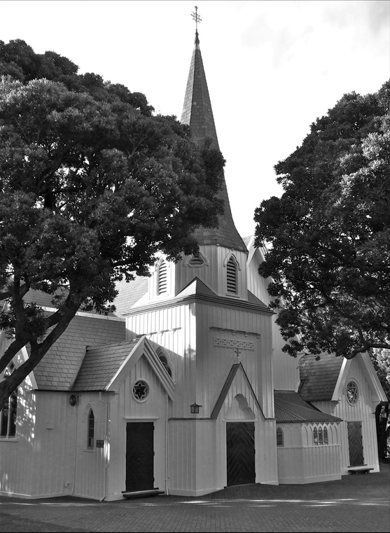 Exterior of Old Saint Pauls church, Wellington, New Zealand.